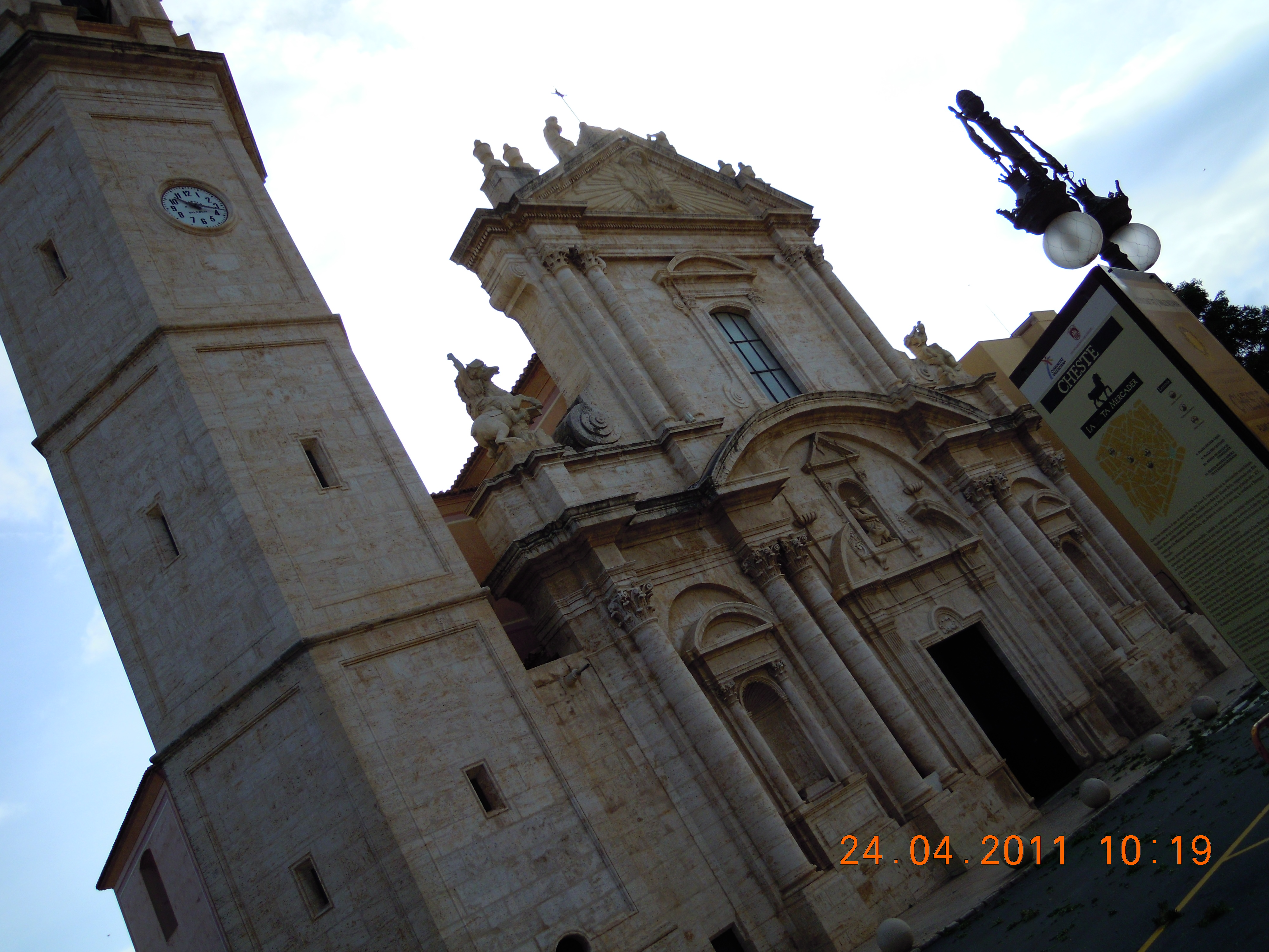 Cheste's church wall